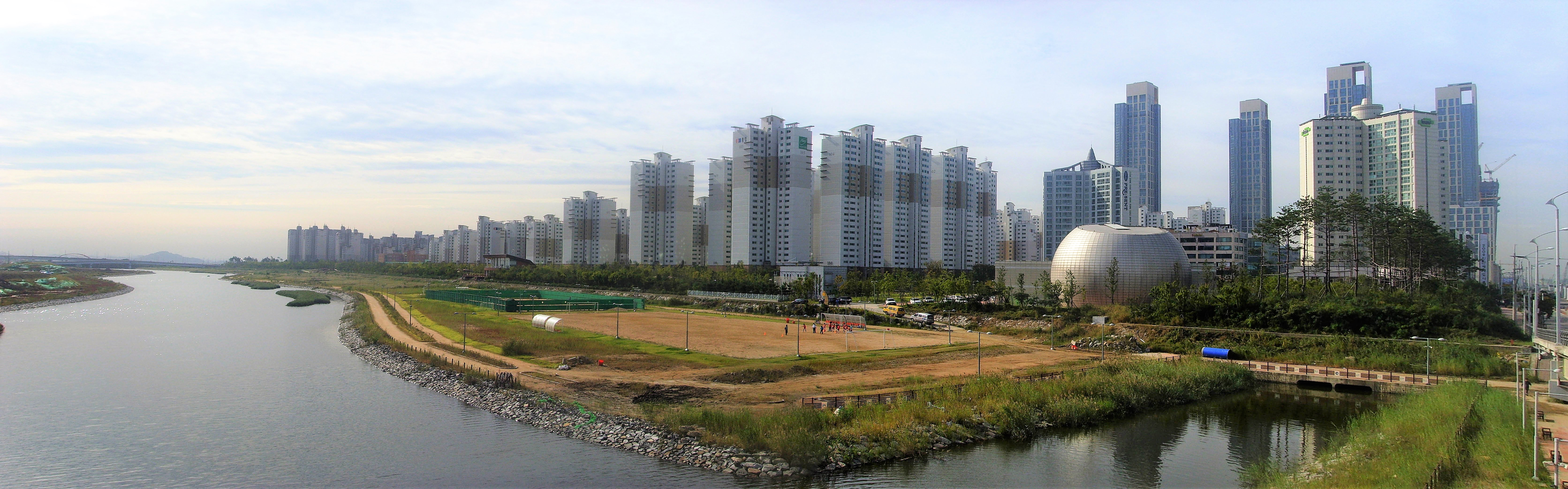 New Songdo City Lake Park